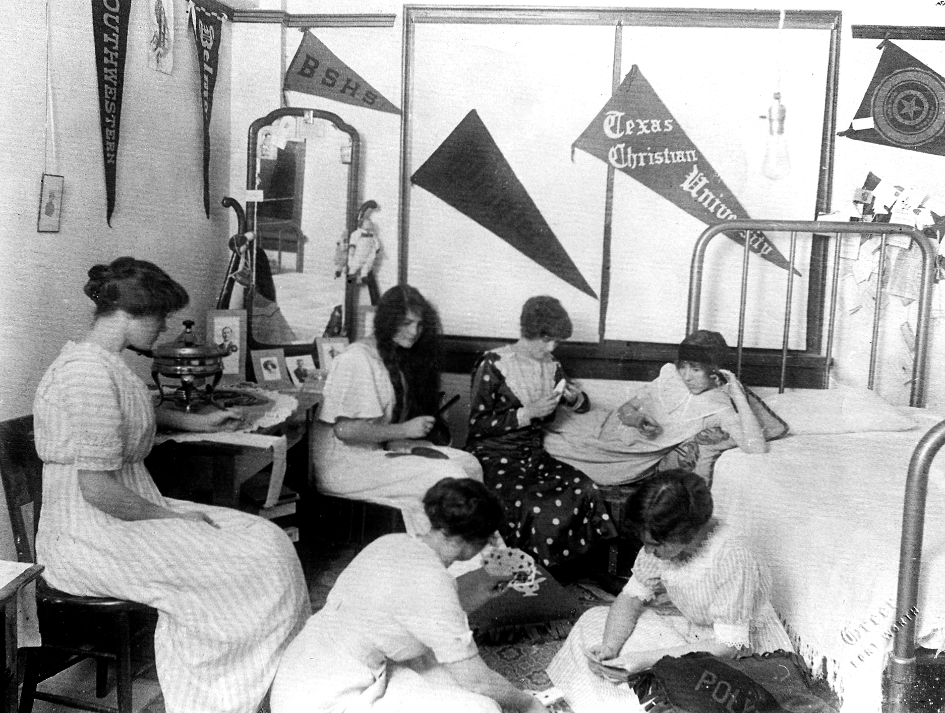 Students gather in a dorm room in Jarvis Hall on the Texas Christian University Fort Worth campus.